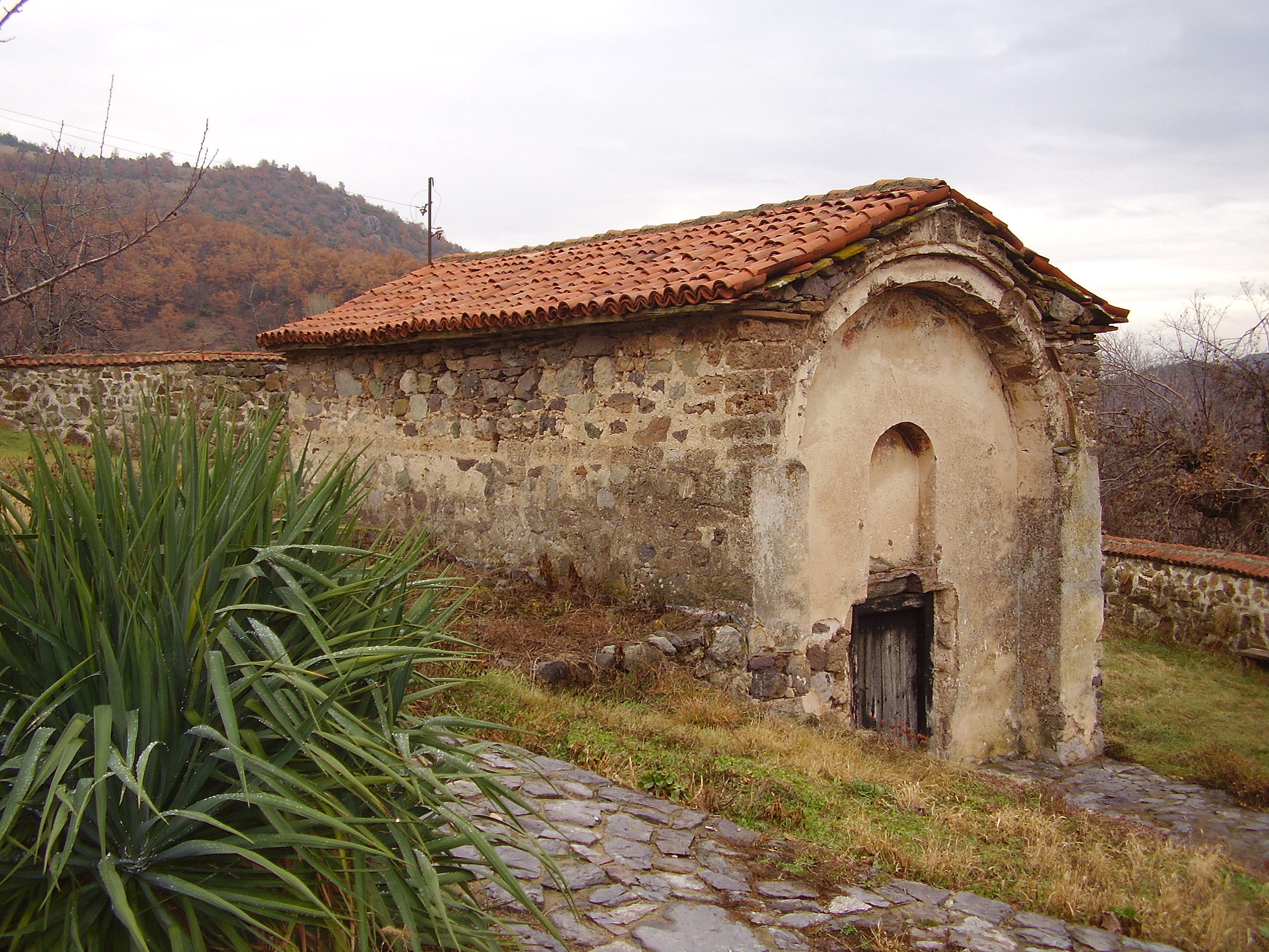 Late Medieval church "Saint Petka" in village Vukovo, Bulgaria